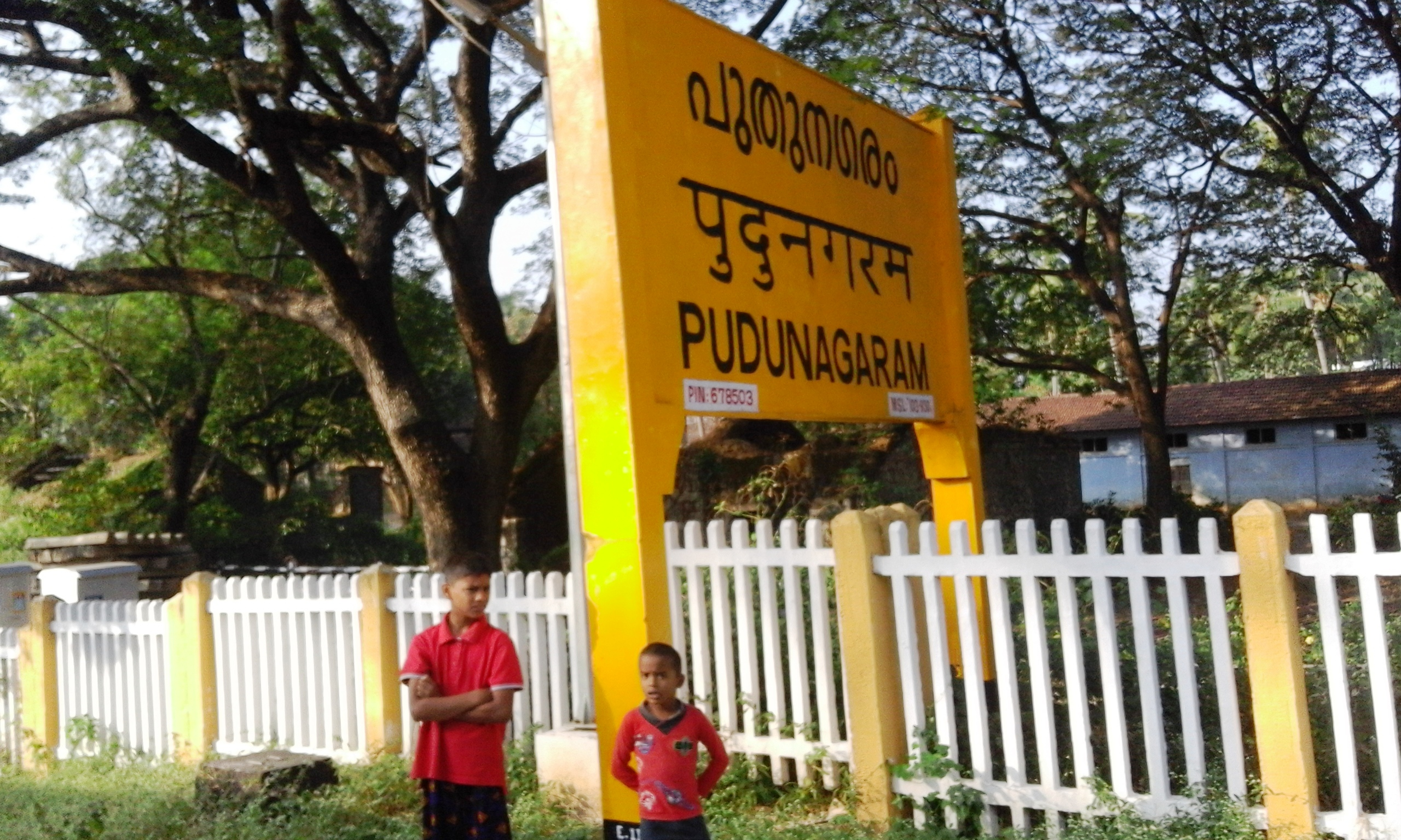 Palakkad to Pollachi by Train,Indai.